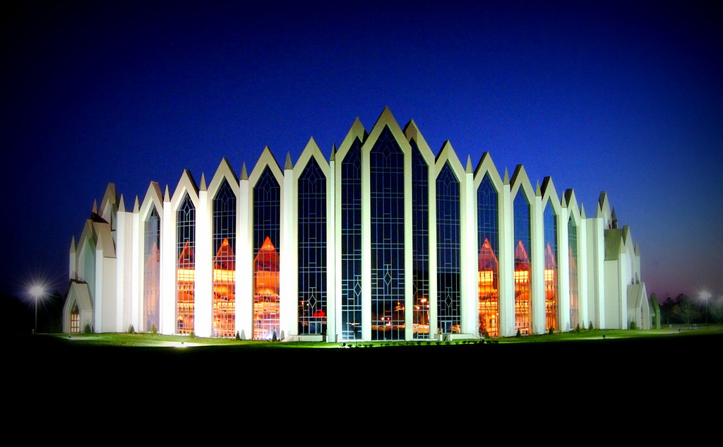 Calvary Church in Charlotte, NC at night